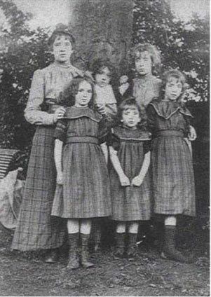 Black and white photograph of the children of Henri Motte, the painter